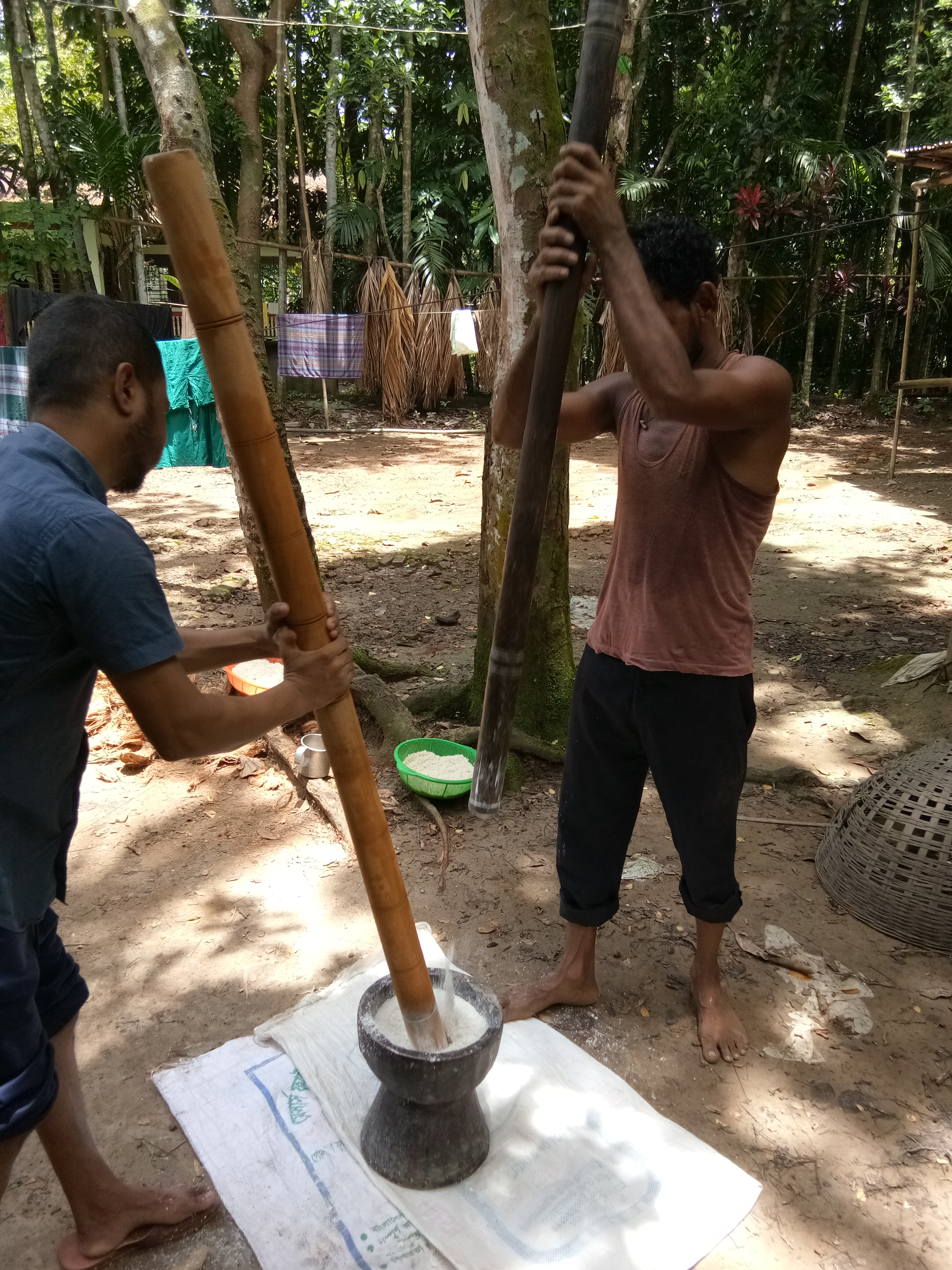 a traditional Sylhet style way to grind rice for making powder This photo has been taken in the country: Bangladesh